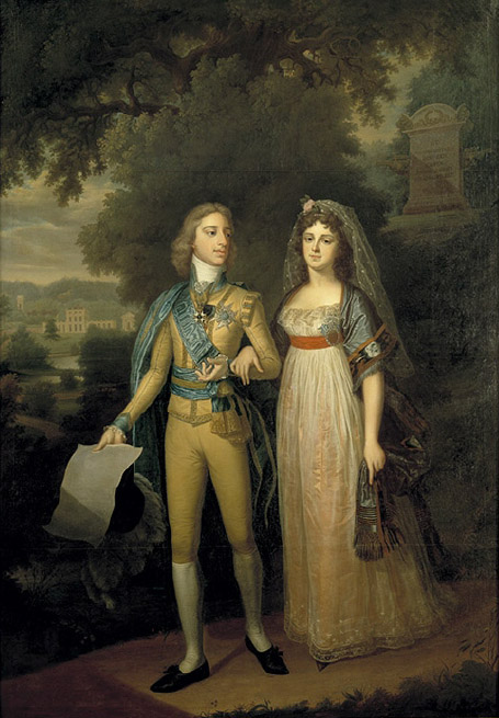 Gustav IV Adolf, 1778-1837, King of Sweden and Fredrika Dorotea Vilhelmina, 1781-1826, Princess of Baden, Queen of Sweden